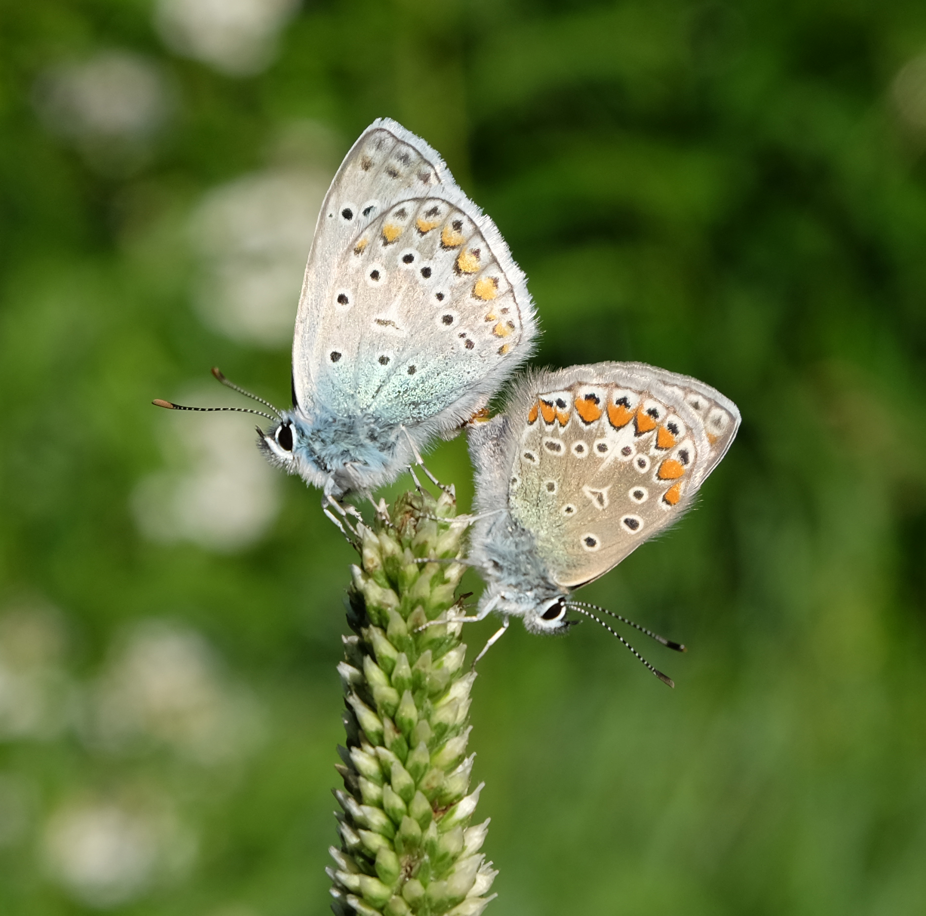 A pair of Common blue (Polyommatus icarus) - a butterfly in the family Lycaenidae, the male on the left, the female on the right. Like many other species of the Lycaenidae family, the caterpillars of this butterfly are myrmecophiles and their development is somehow connected with ants.